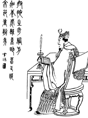 Qing Dynasty Romance of the Three Kingdoms illustration of Ding Yuan